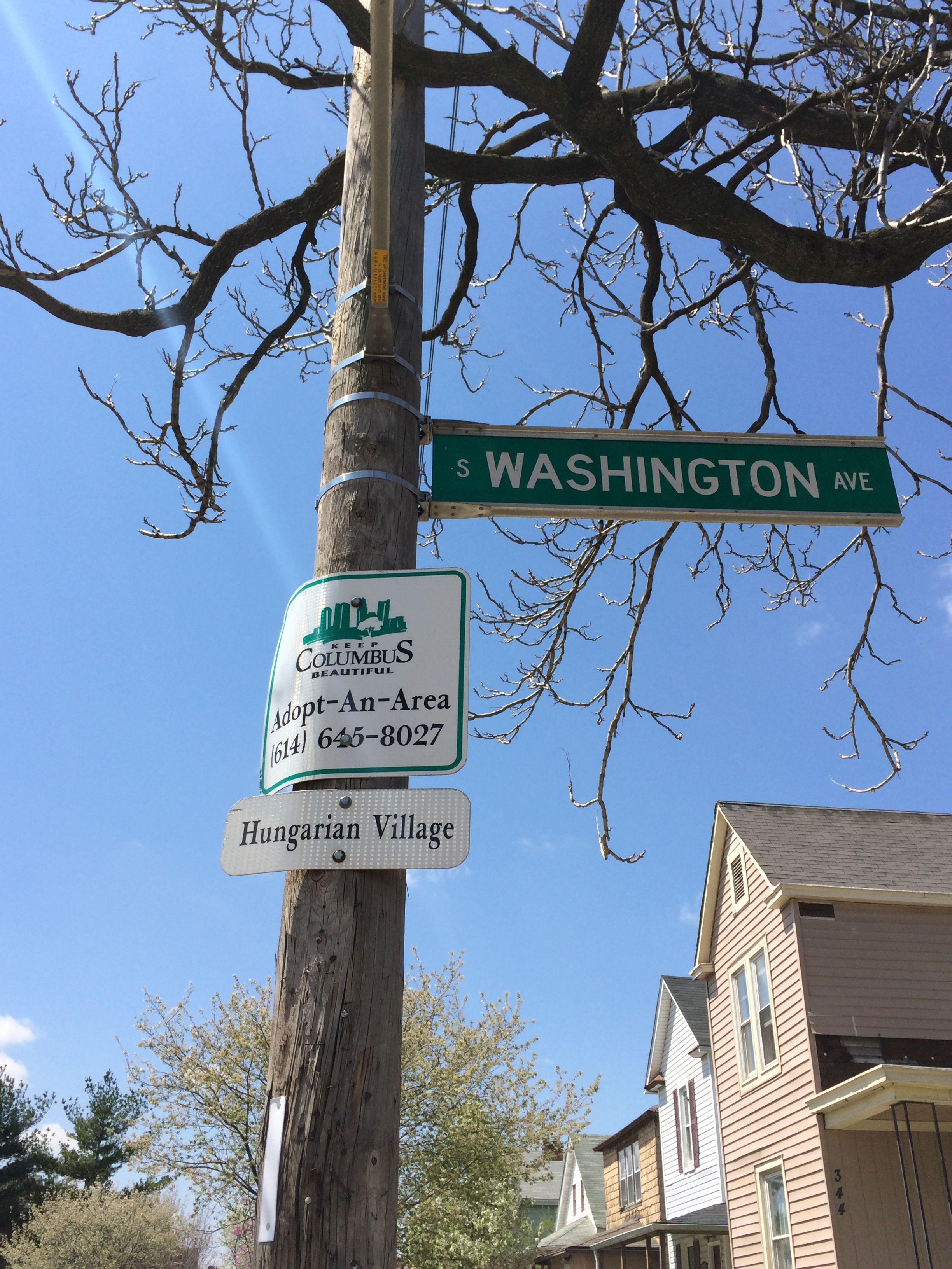 Denotes entrance to Hungarian Village located in Columbus, Ohio